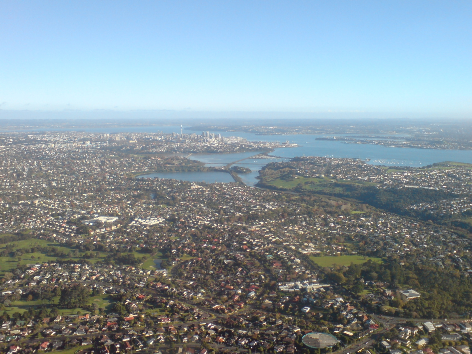 The eastern suburbs (foreground) and the City CBD of Auckland City, New Zealand.